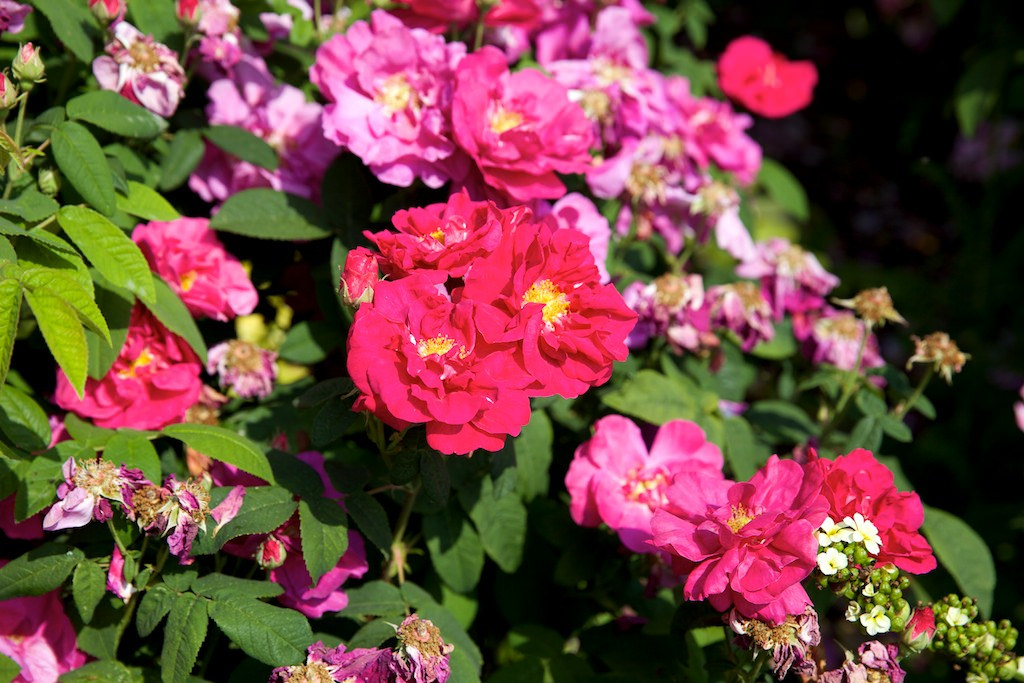 at Mottisfont Abbey